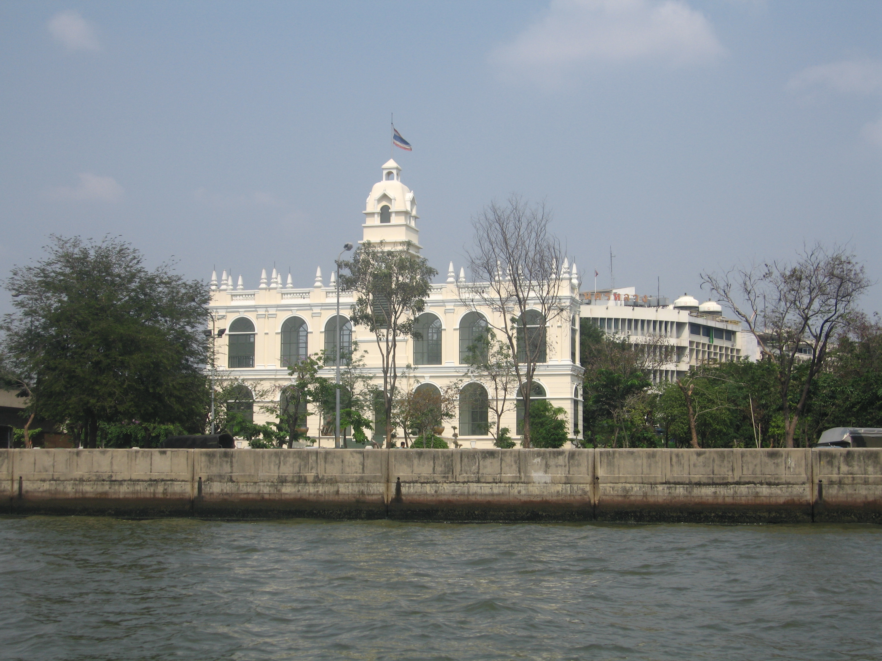 Reconstruction of postal headquarter building (Praisaneeyakhan), Bangkok